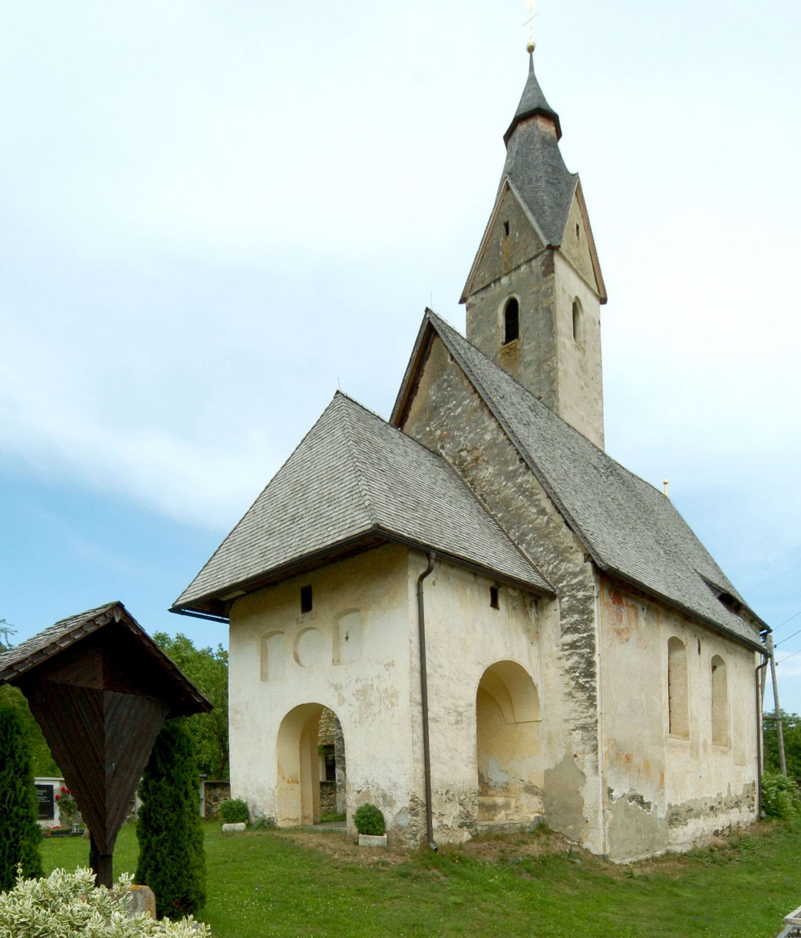 Subsidiary church Saint Giles in Linsenberg, municipality Poggersdorf, district Klagenfurt Land, Carinthia, Austria, EU